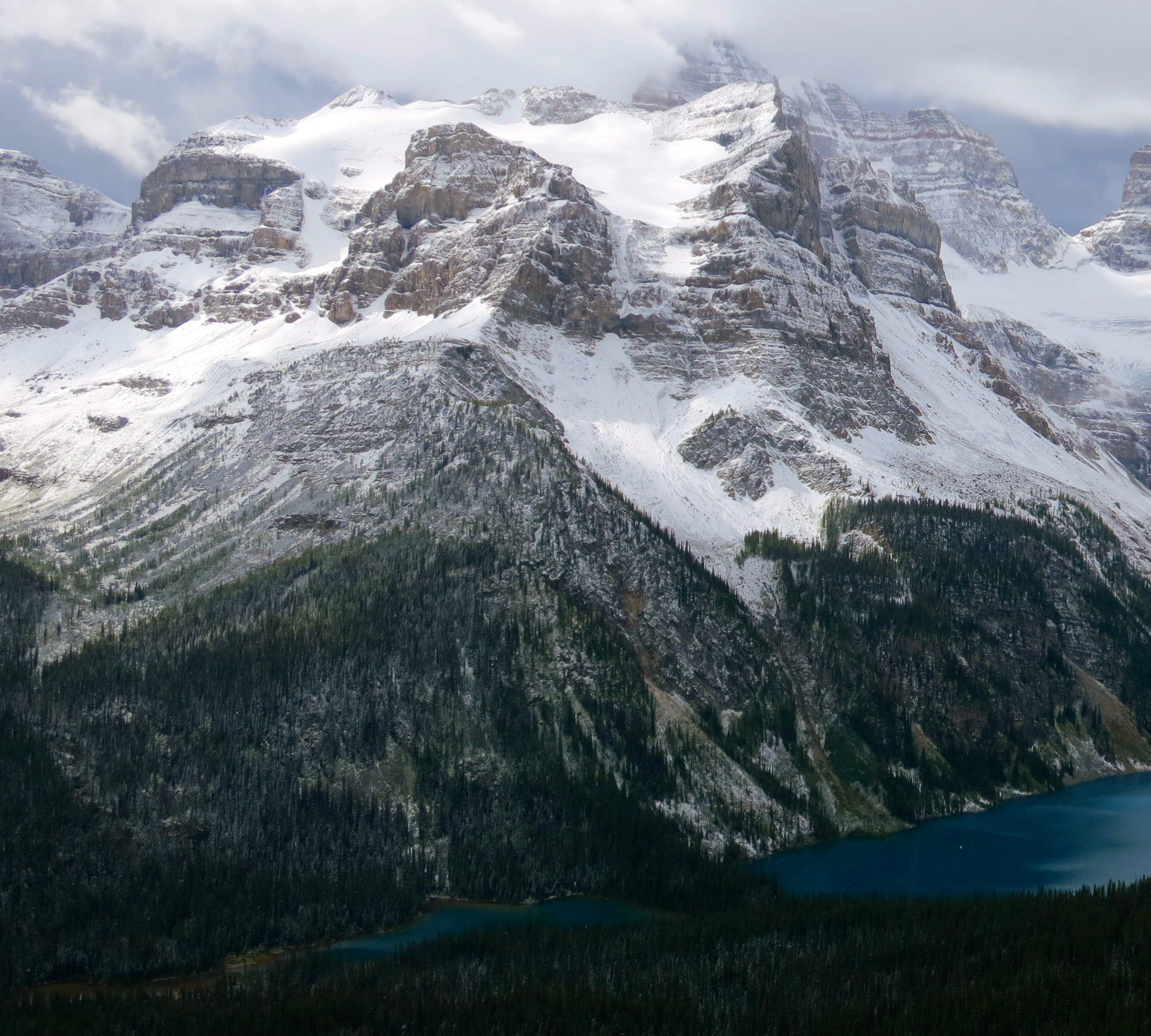 Mount Gloria in white. Canada